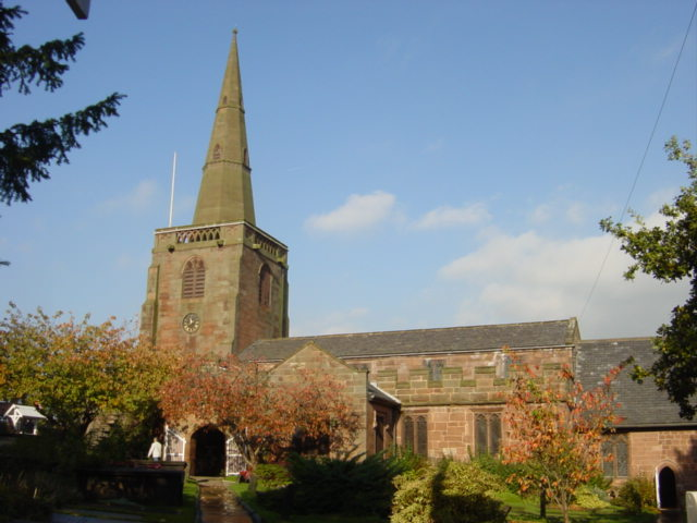 All Saints Parish Church, Childwall The ancient All Saints Parish Church, often called Childwall Abbey, which is in fact the nearby inn! Parts of this beautiful church date back to the 14th century, though some of the building materials have Norman or even Anglo-Saxon origins. There was probably a chapel here in the 11th century and the current name is probably of relatively recent origin; a document from the 14th century suggests that the church was dedicated to St. Peter at that time.